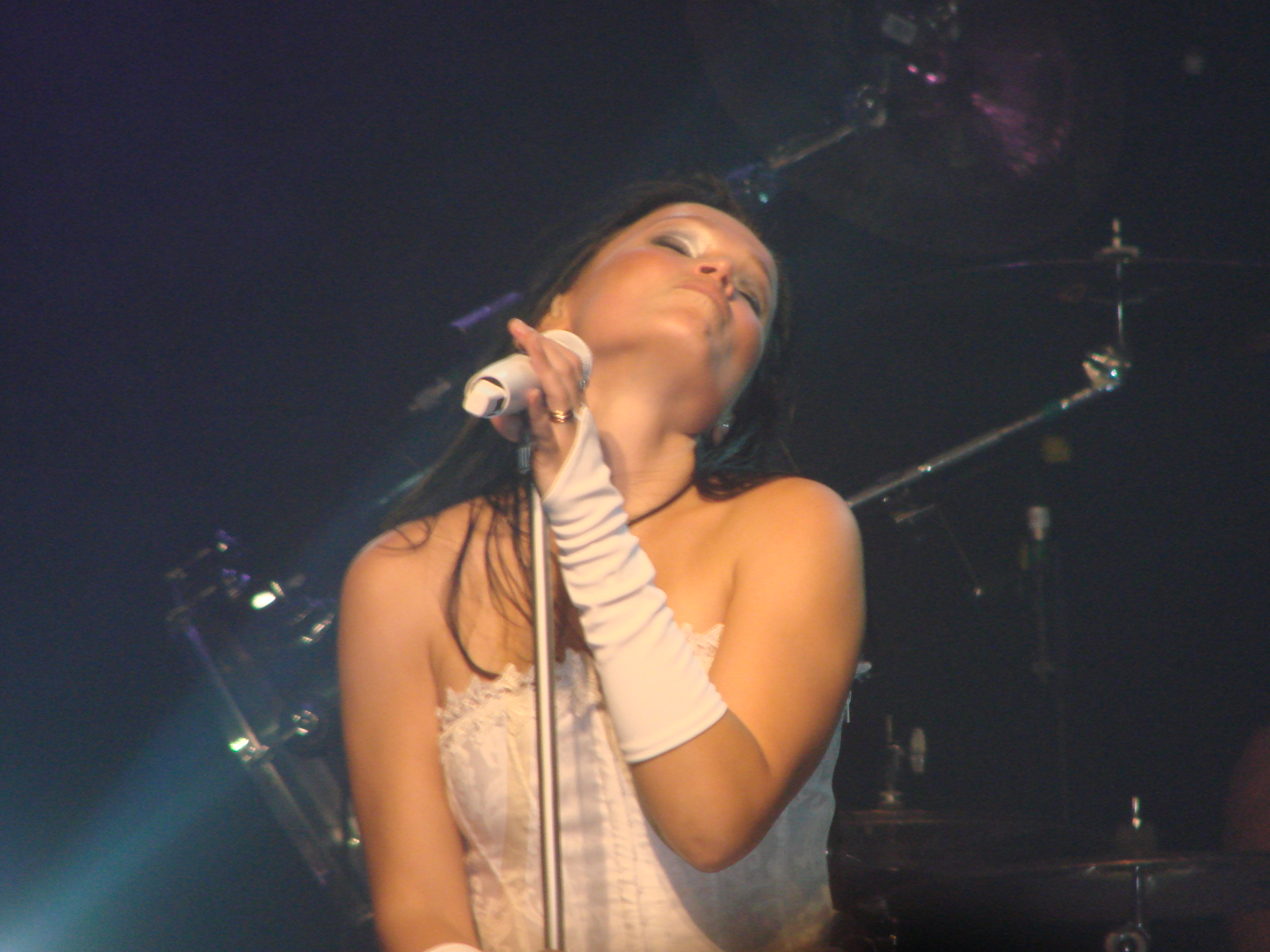 Tarja Turunen singing at the Obras Stadium in Buenos Aires, Argentina, on September 6, 2008. This was the last show of the Winter Storm tour on America.